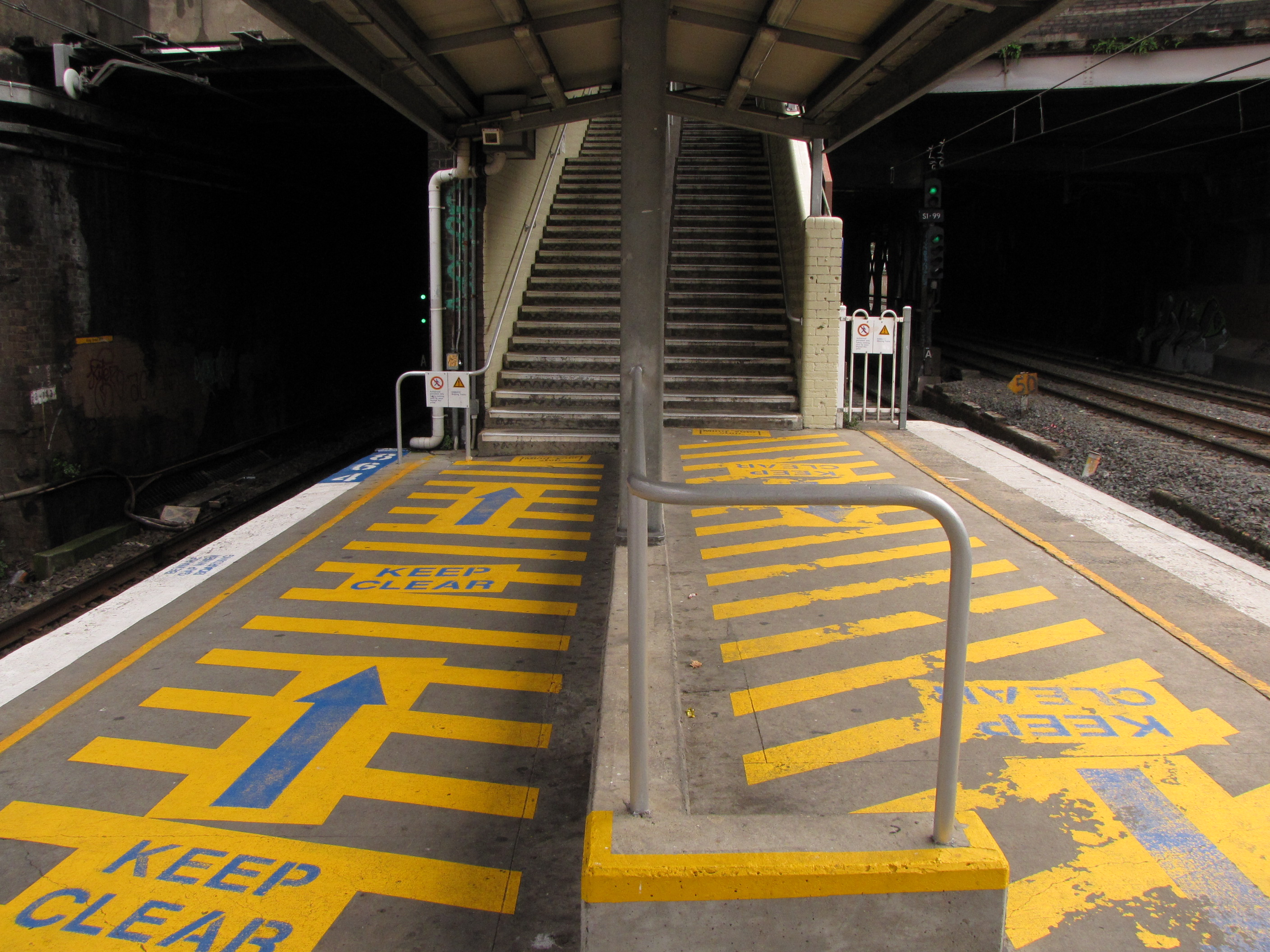 Narrow stairs leading up to the concourse at Newtown railway station.